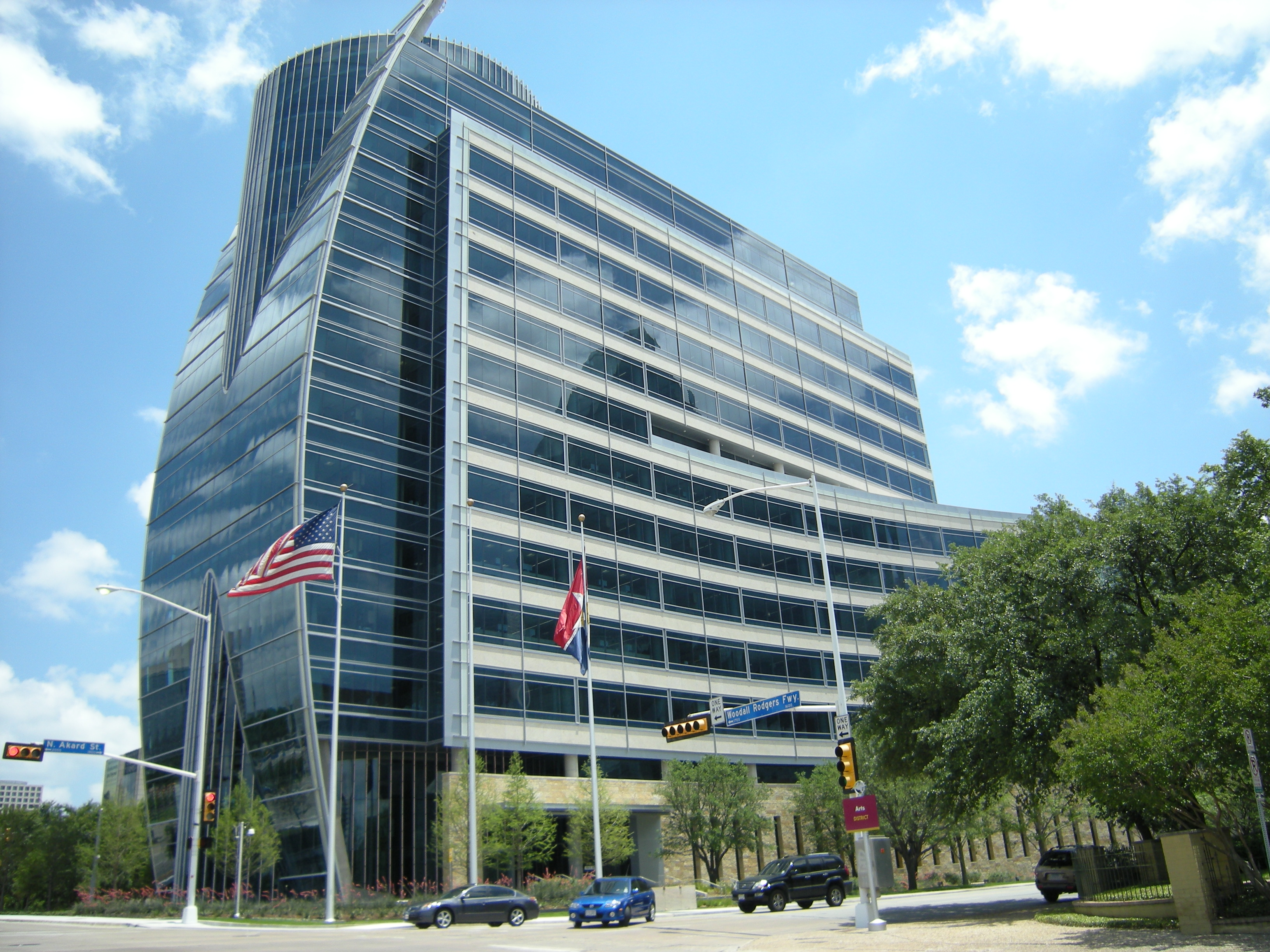 Hunt Consolidated Tower, downtown Dallas, Texas.